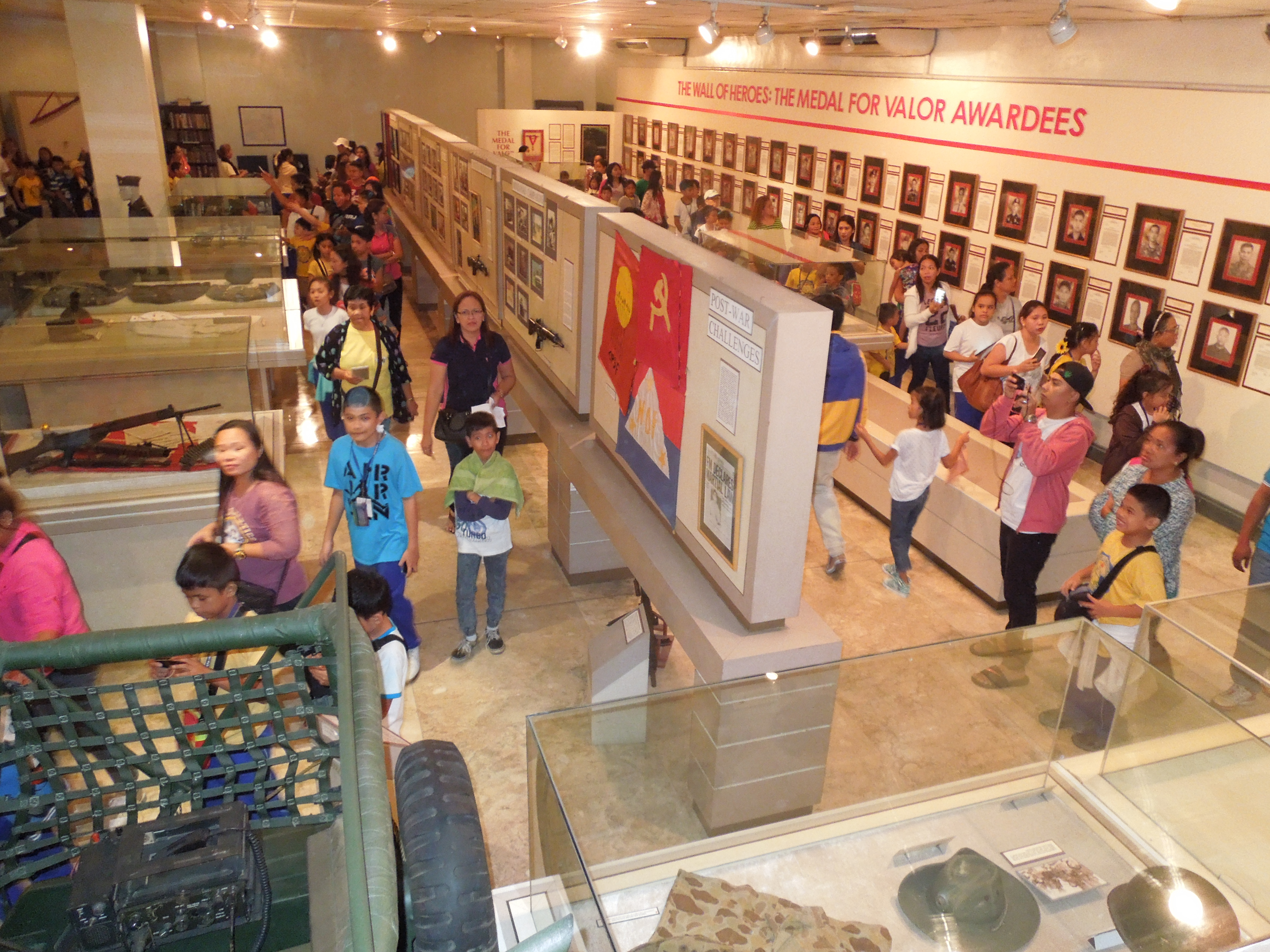 Chief of Staff of the Armed Forces of the Philippines Bulwagang Heneral Arturo T. Enrile - Armed Forces of the Philippines Museum Philippine Medal of Valor The Wall of Heroes: Medal for Valor Awardees List of theaters and concert halls in Metro Manila List of concert halls Camp Aguinaldo Camp General Emilio Aguinaldo (CGEA) General Headquarters Philippine National Police Arturo Enrile (Note: Judge Florentino Floro, the owner, to repeat, Donor Florentino Floro of all these photos hereby donate gratuitously, freely and unconditionally all these photos to and for Wikimedia Commons, exclusively, for public use of the public domain, and again without any condition whatsoever).